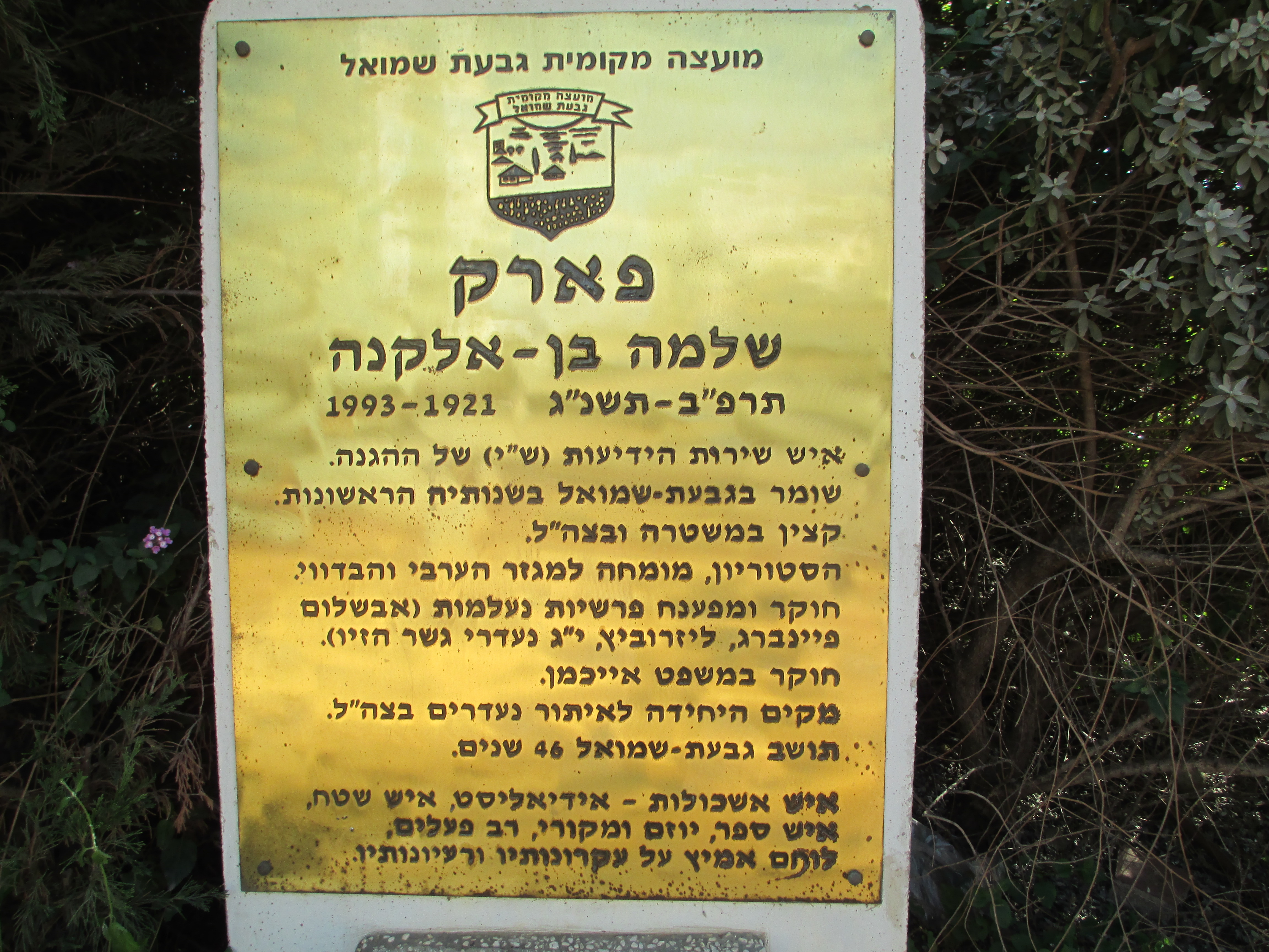 Shlomo ben Elkana memorial park in Giv'at Shmuel